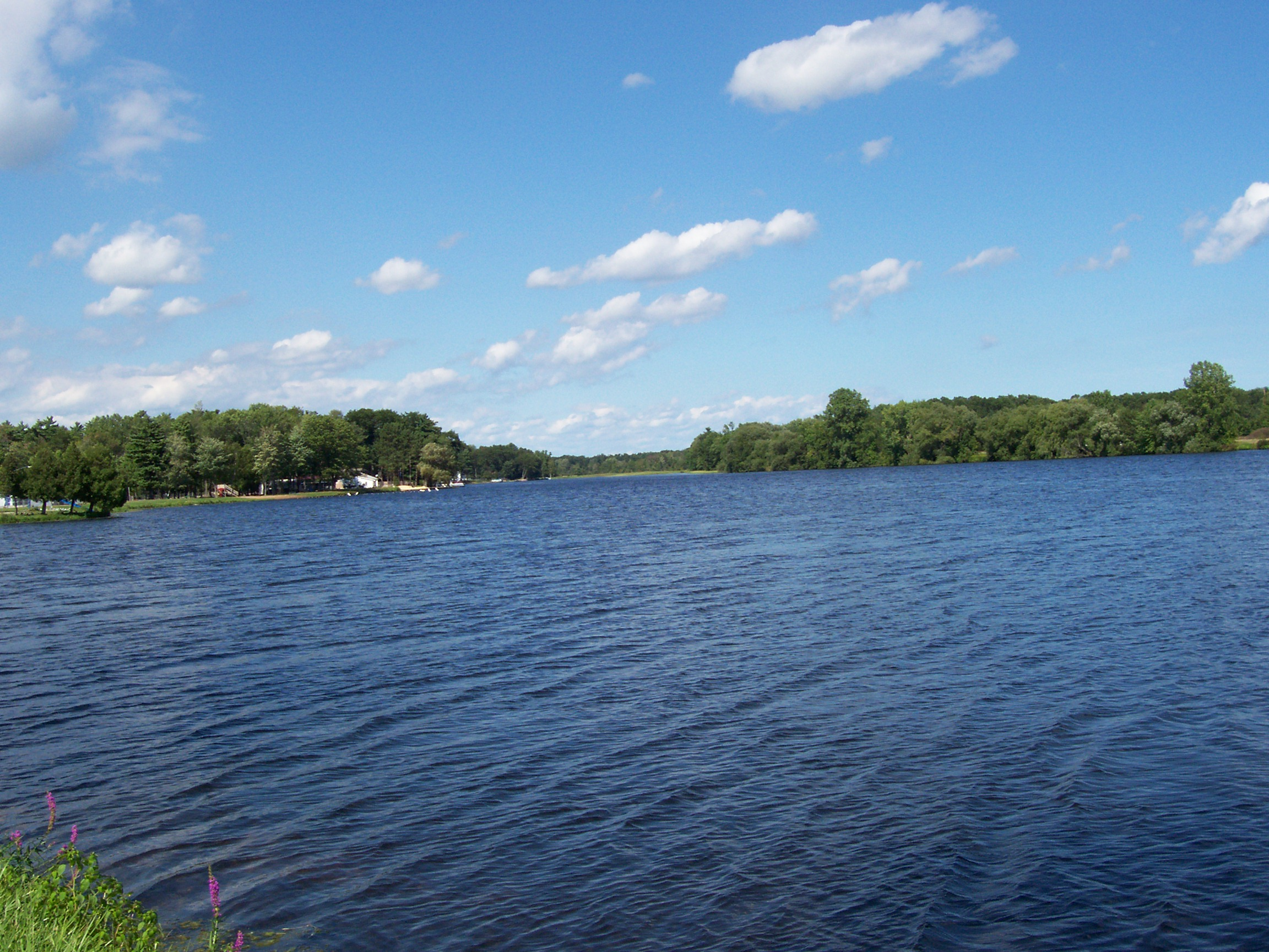 Looking west at the Peshtigo River from a city park in downtown Peshtigo,Wisconsin, USA.